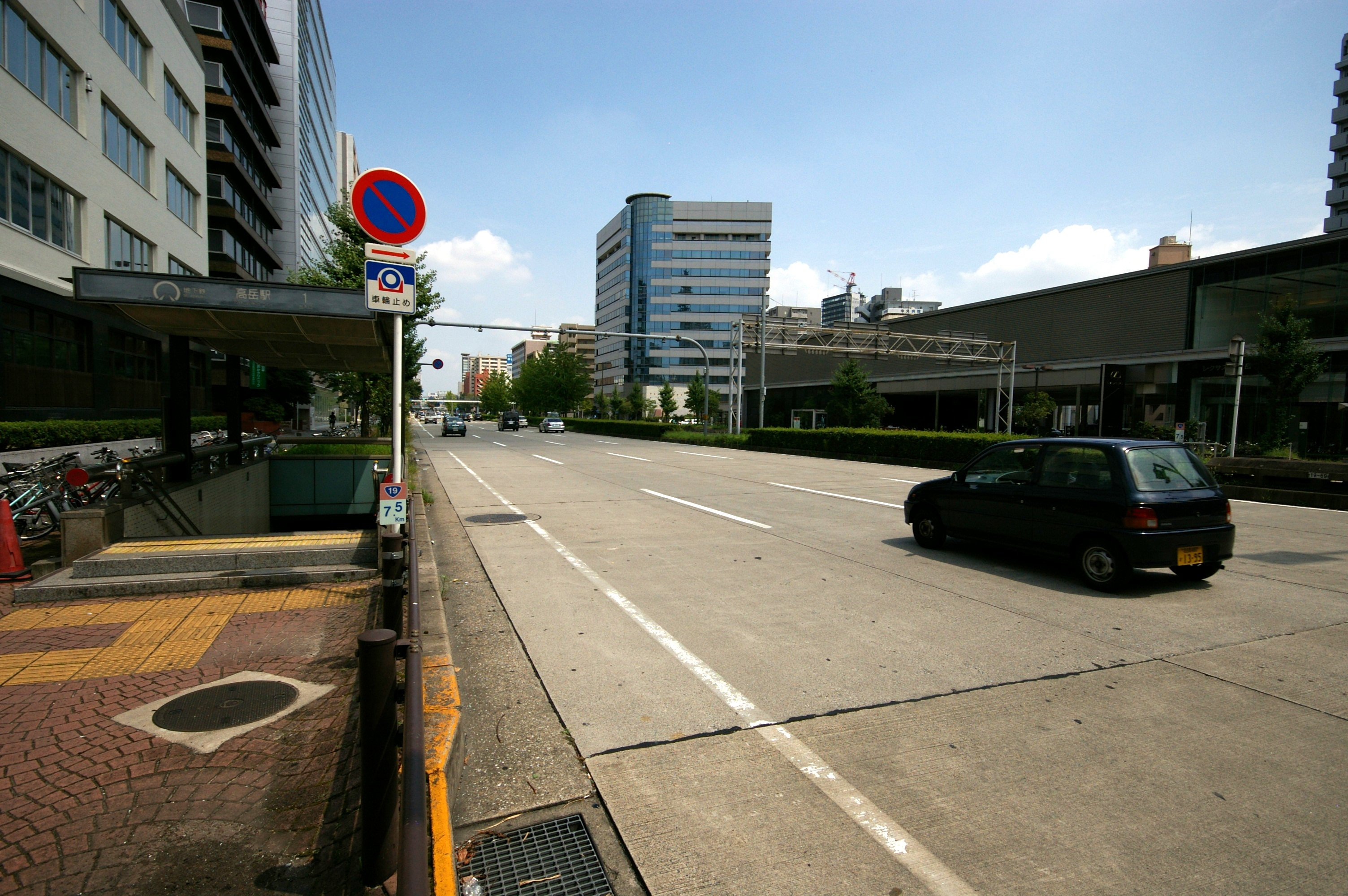 Nagoya Takaoka Subway Station